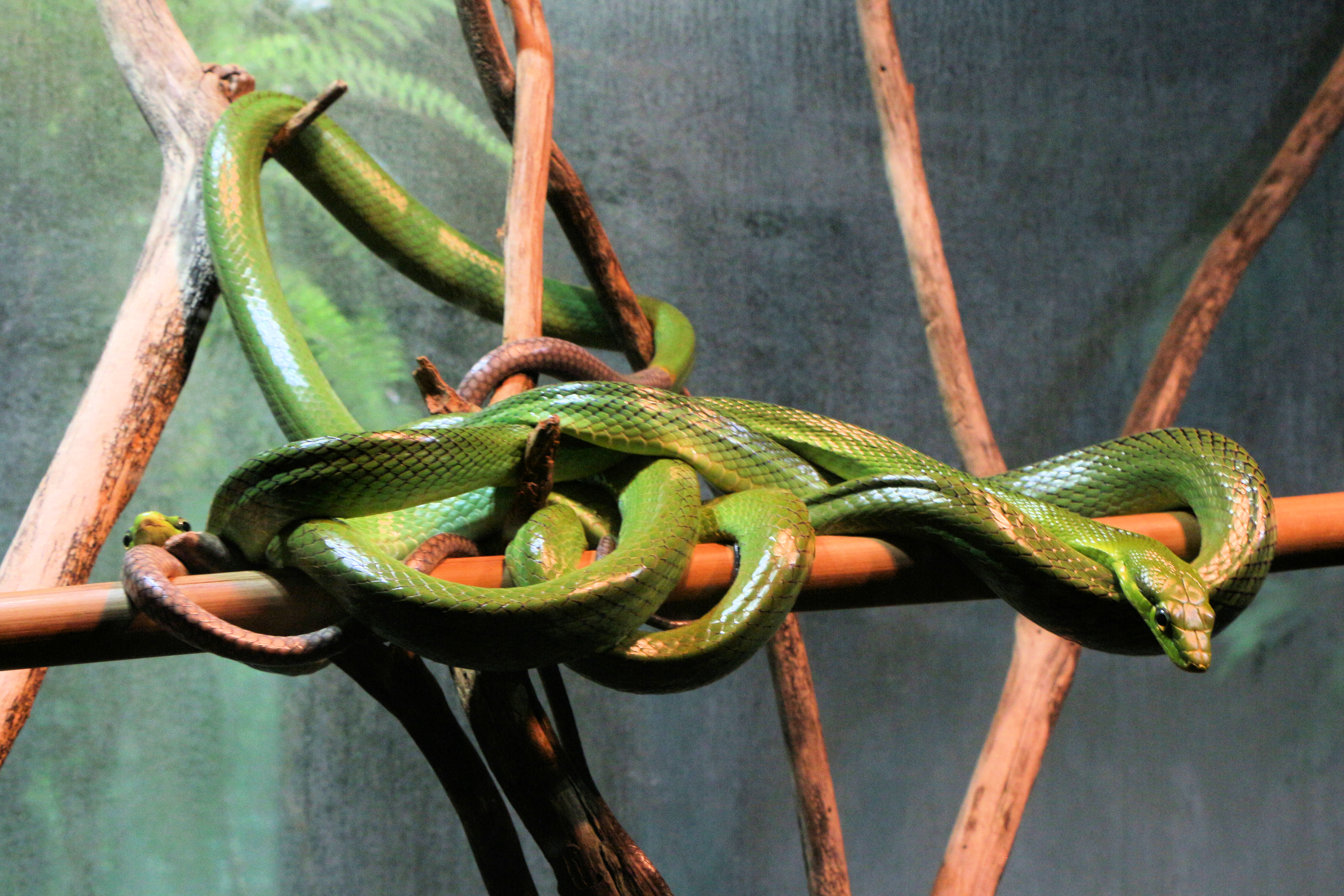 Taken in a museum terrarium